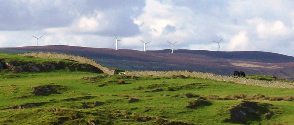 Wind turbines north of Cumbria, England. Not sure of the name of the location, but they're the ones north of Barrow-in-Furness on this this map